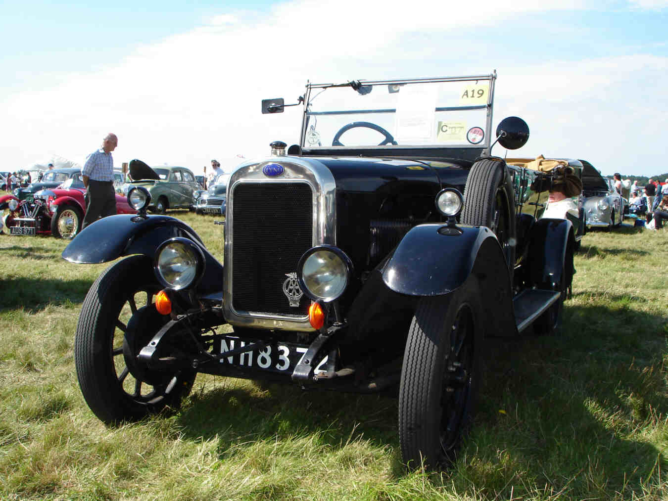 1927 Clyno 12 car photographed at Woodvale 2007. Southport. (DVLA) first registered 2 April 1928, 1437 cc